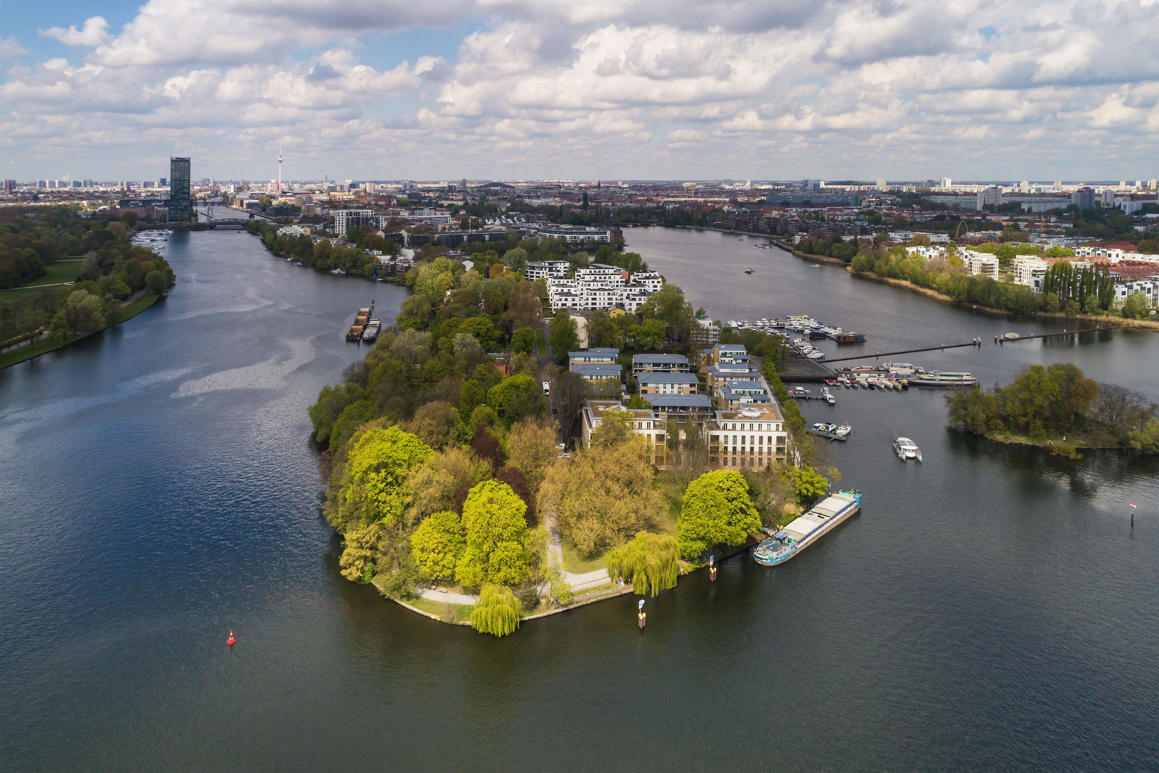 Stralau peninsula in Spree River in Berlin (Germany)